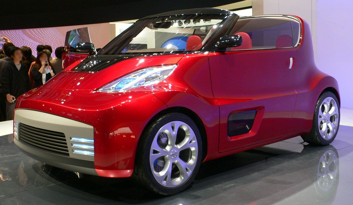 Nissan_R.D/B.X photographed in Tokyo Motor Show 2007